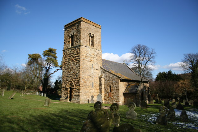 Parish church of St Mary Magdalene, Rothwell, Lincolnshire, seen from the southwest